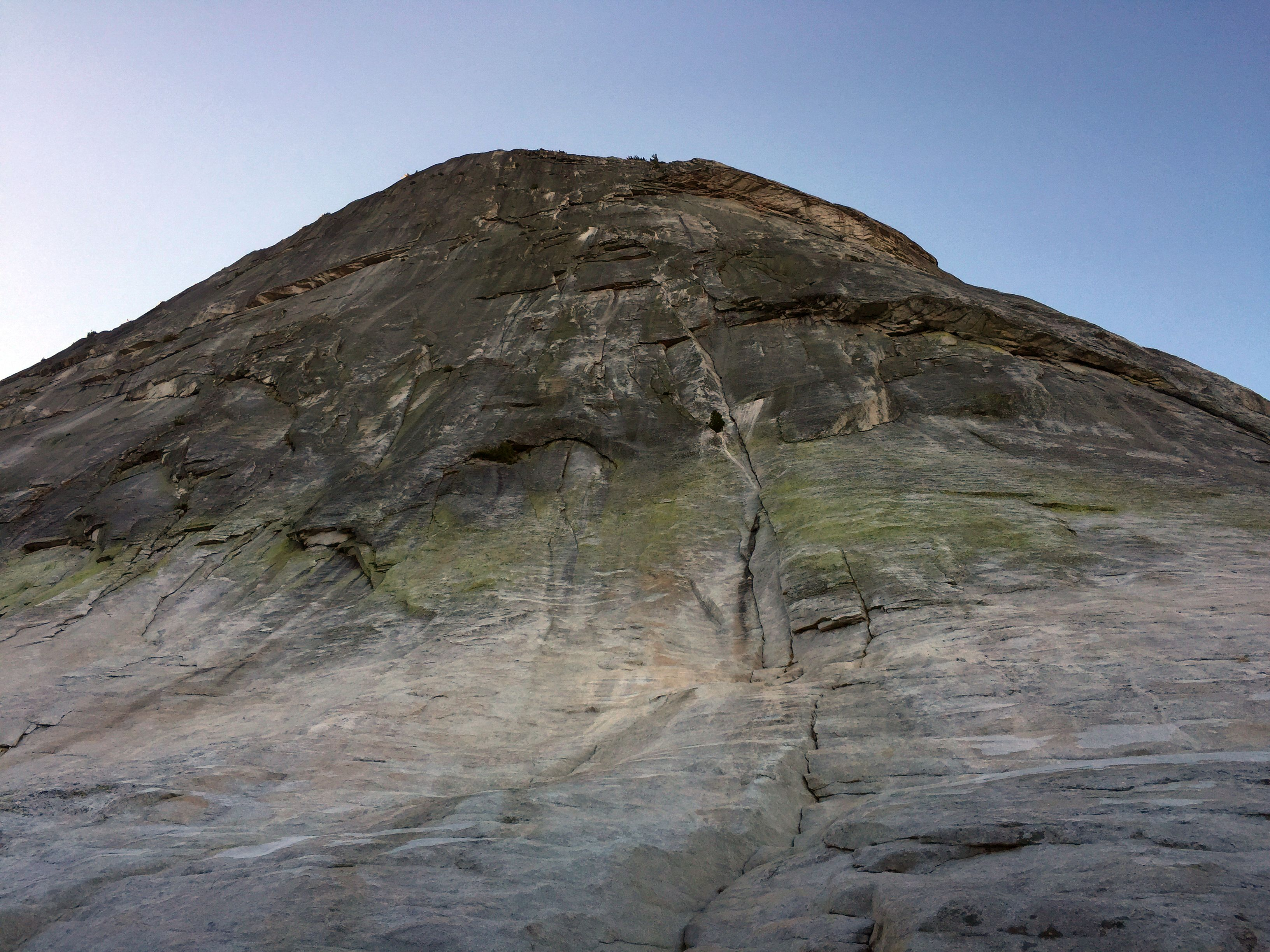 Tuolumne Meadows section of Yosemite National Park. Fairview Dome - Regular Route